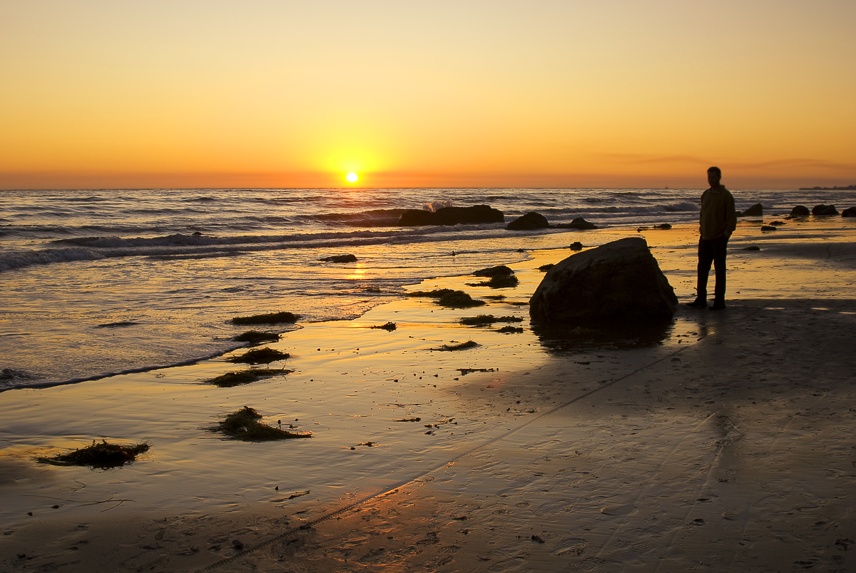 Sunset along the California Coast